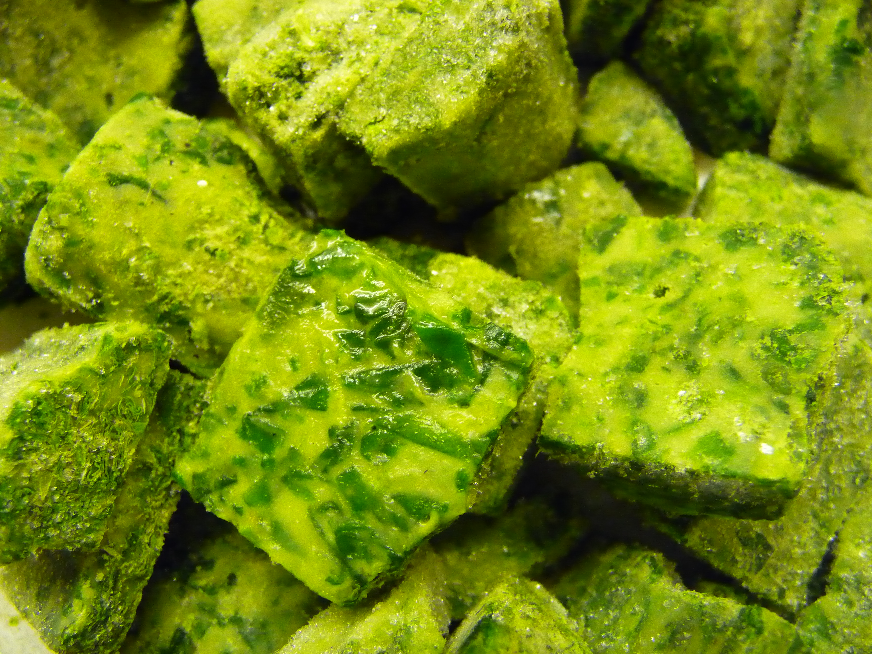 Frozen spinach